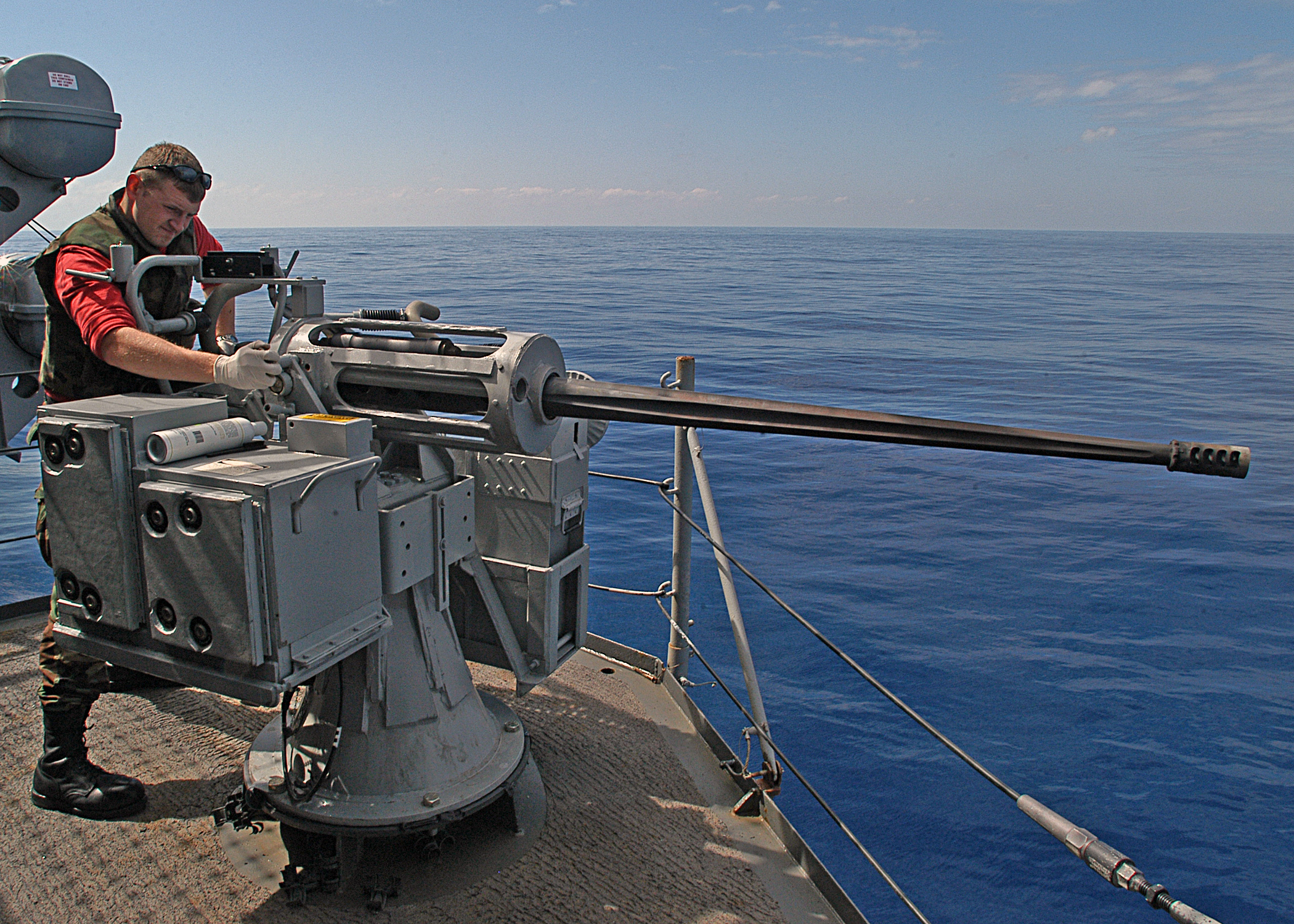 Mediterranean Sea (Jun. 17, 2004) - Aviation Ordnanceman 3rd Class Alexander Carlson, from Ablany, N.Y., completes maintenance on a MK-38 25mm Machine Gun System (MGS) aboard the amphibious assault ship USS Kearsarge (LHD 3). The 25mm MGS is an automatic gun system that provides ships with a defensive and offensive gunfire capability for the engagement of a variety of surface targets. It is designed to provide close range defense against patrol boats, swimmers, floating mines, and various targets ashore including enemy personnel, lightly armored vehicles and terrorist threats. Kearsarge is surge deployed to transport elements of the 24th Marine Expeditionary Unit (MEU) to the Central Command Area of Responsibility (AOR) in support of Operation Iraqi Freedom (OIF) and the global war on terrorism. U.S. Navy photo by Photographer's Mate Airman Kenny Swartout (RELEASED)